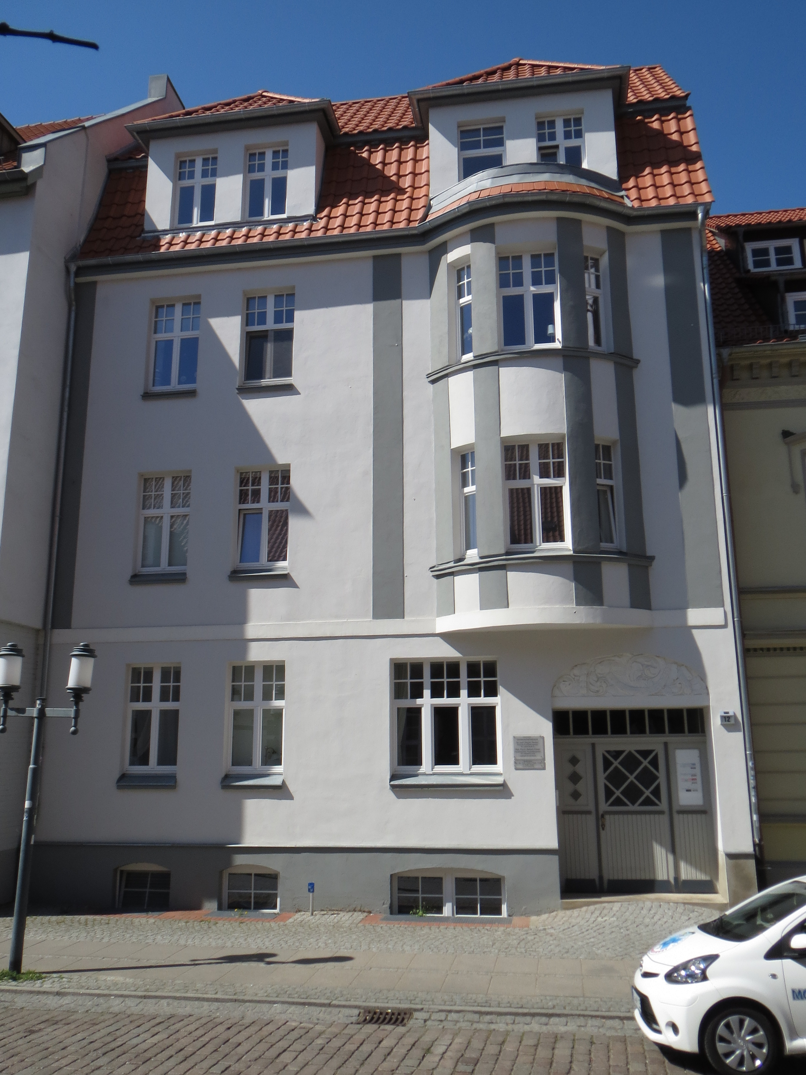 Brüggstraße 12